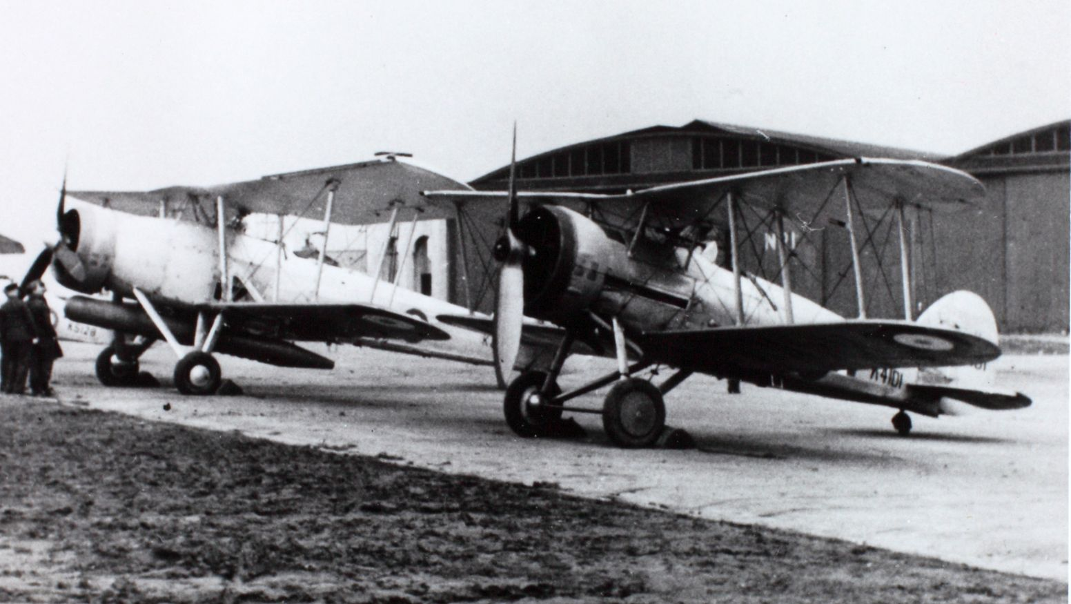 Image from the Charles Daniels Photo Collection album "British Aircraft." SOURCE INSTITUTION: San Diego Air and Space Museum Archive